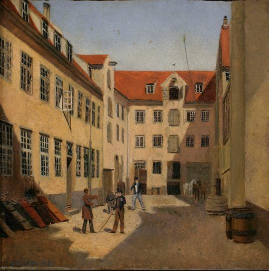 The courtyard behind Matthias Hansens Gård at 6 Amagertorv in Copenhagen, Denmark. Shows it before the restoration in the 1890s.